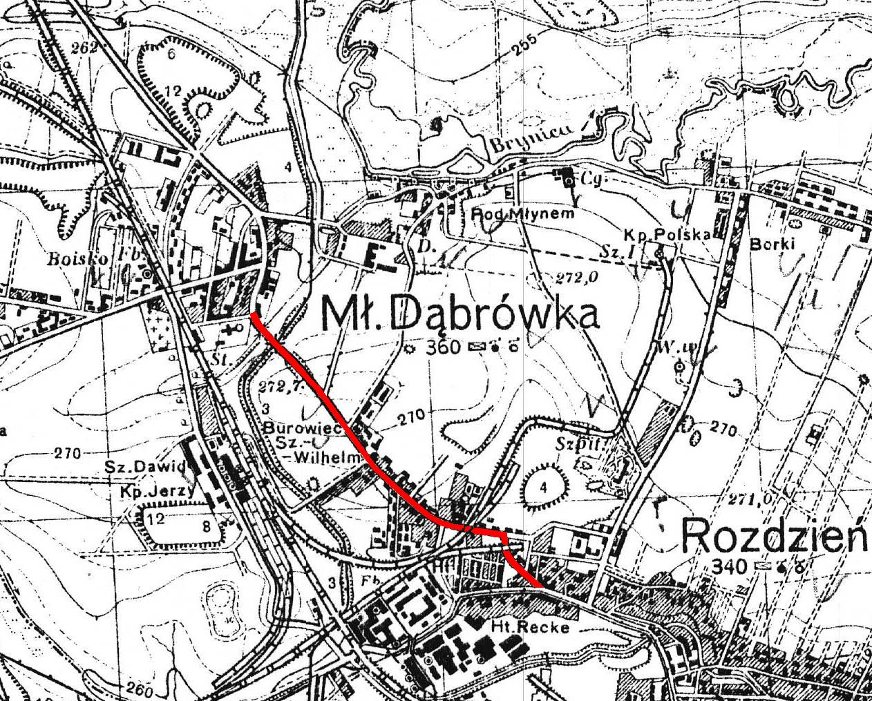 Hallera Street in Katowice-Dąbrówka Mała. Old map from 1933.